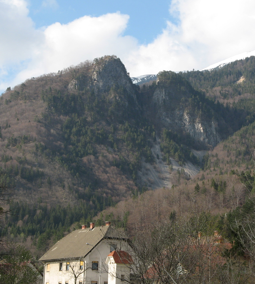 Ajdna peak in the Karavanke Alps